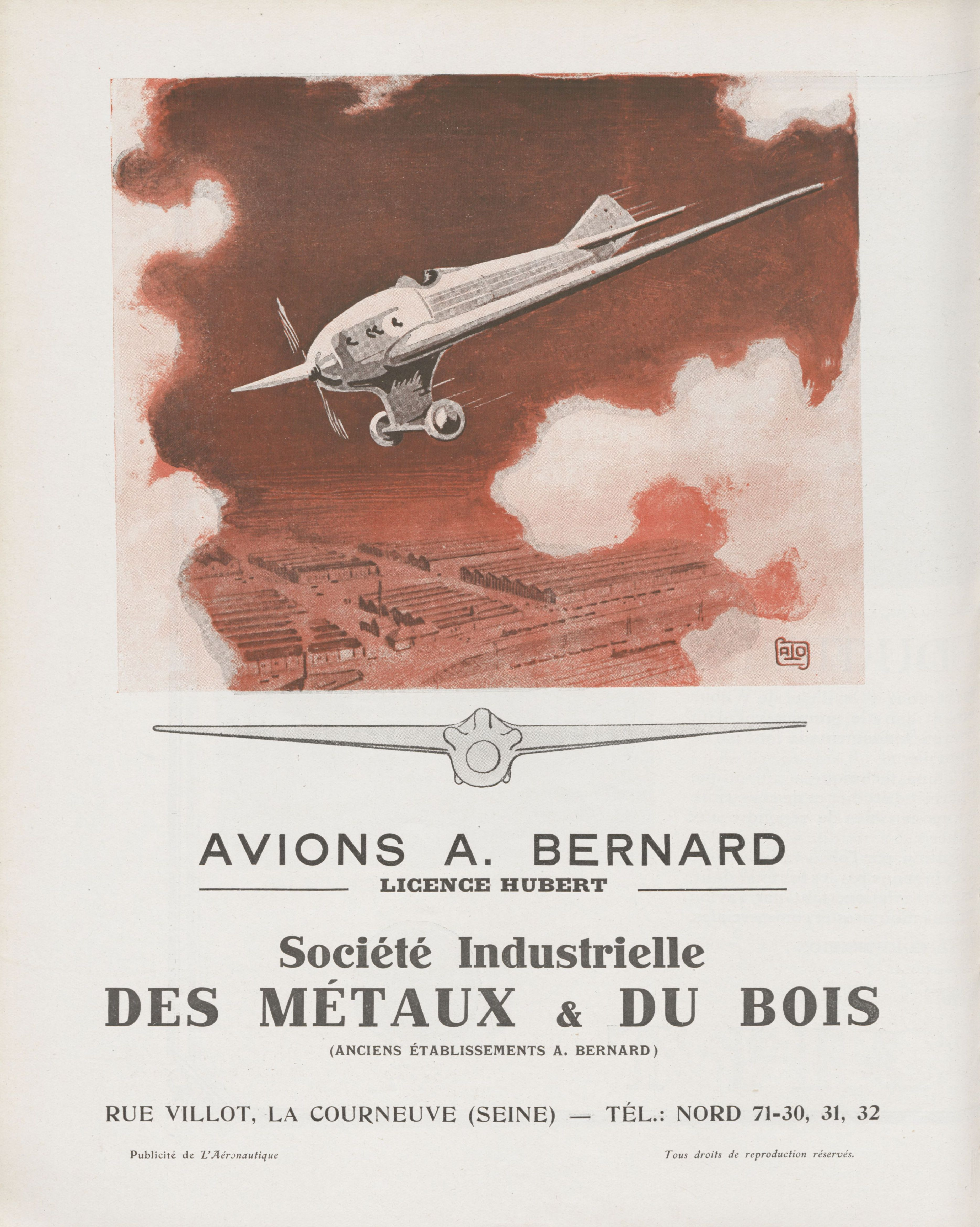 Advert for "Avions A. Bernard" aircraft company in "L'Aéronautique" journal (Décember 1924)